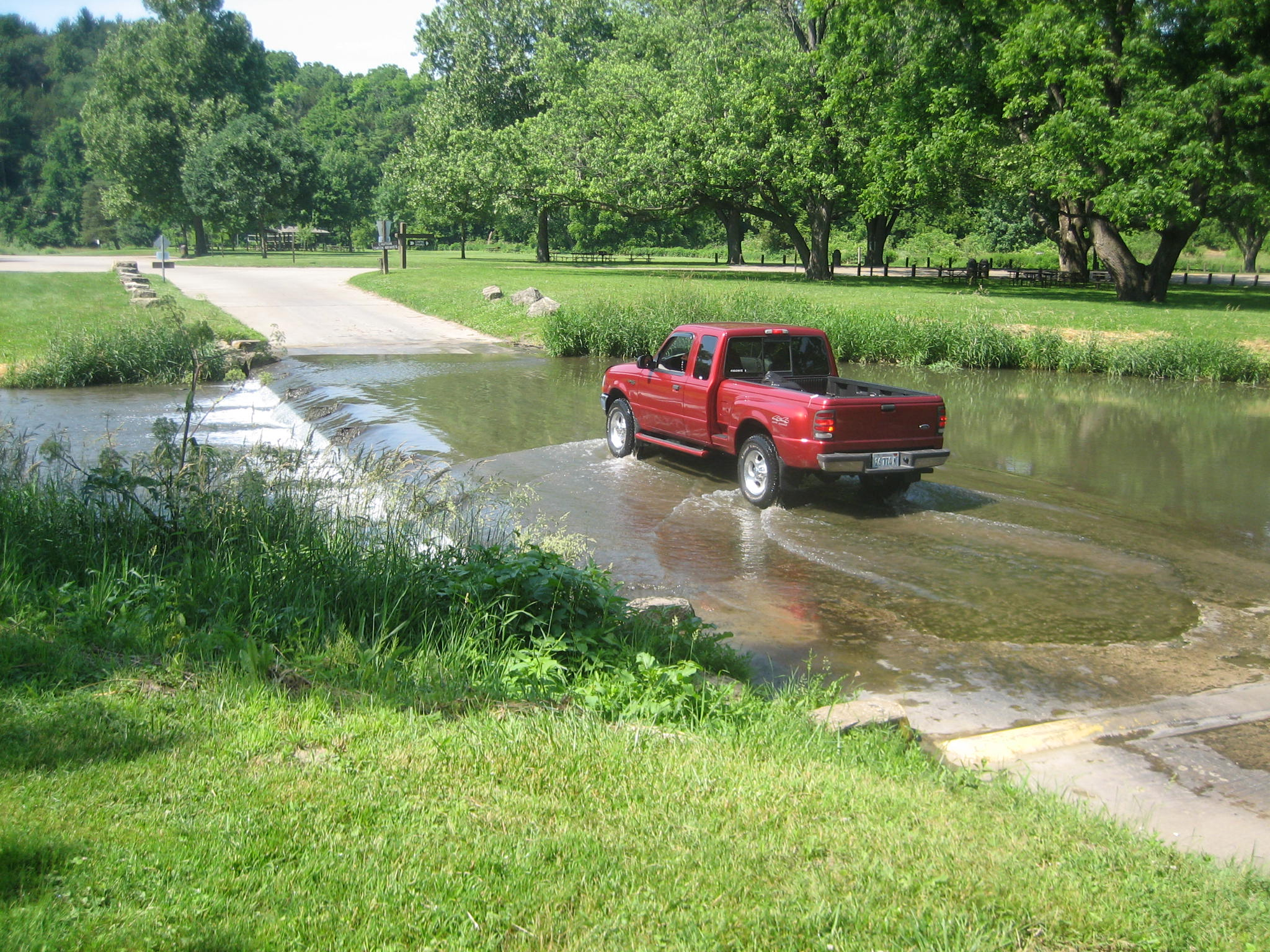 A Ford Ranger pickup truck crossing one of the fords across the Pine Creek in White Pines Forest State Park, Ogle County, Illinois, United States.